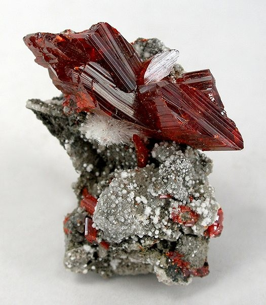 Realgar, Picropharmacolite Locality: Jiepaiyu Mine (Shimen Mine), Shimen As-(Au) deposit, Shimen County, Changde Prefecture, Hunan Province, China (Locality at ) Size: 3.5 x 2.9 x 2.0 cm. A cute miniature/toenail with a spray of two 1-cm-plus cherry-red realgar crystals atop a matrix, and a sharp acicular spray of the rare species picropharmacolite (white needles) below. There is nothing like these, for deep red color! Old find, though the pharmacolite was only recently realized to be such.